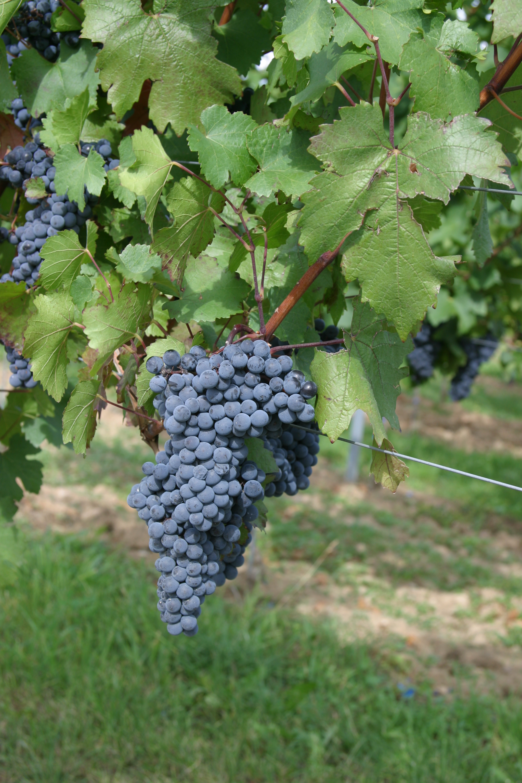 Leafs and grapes of the red grape variety Dakapo.